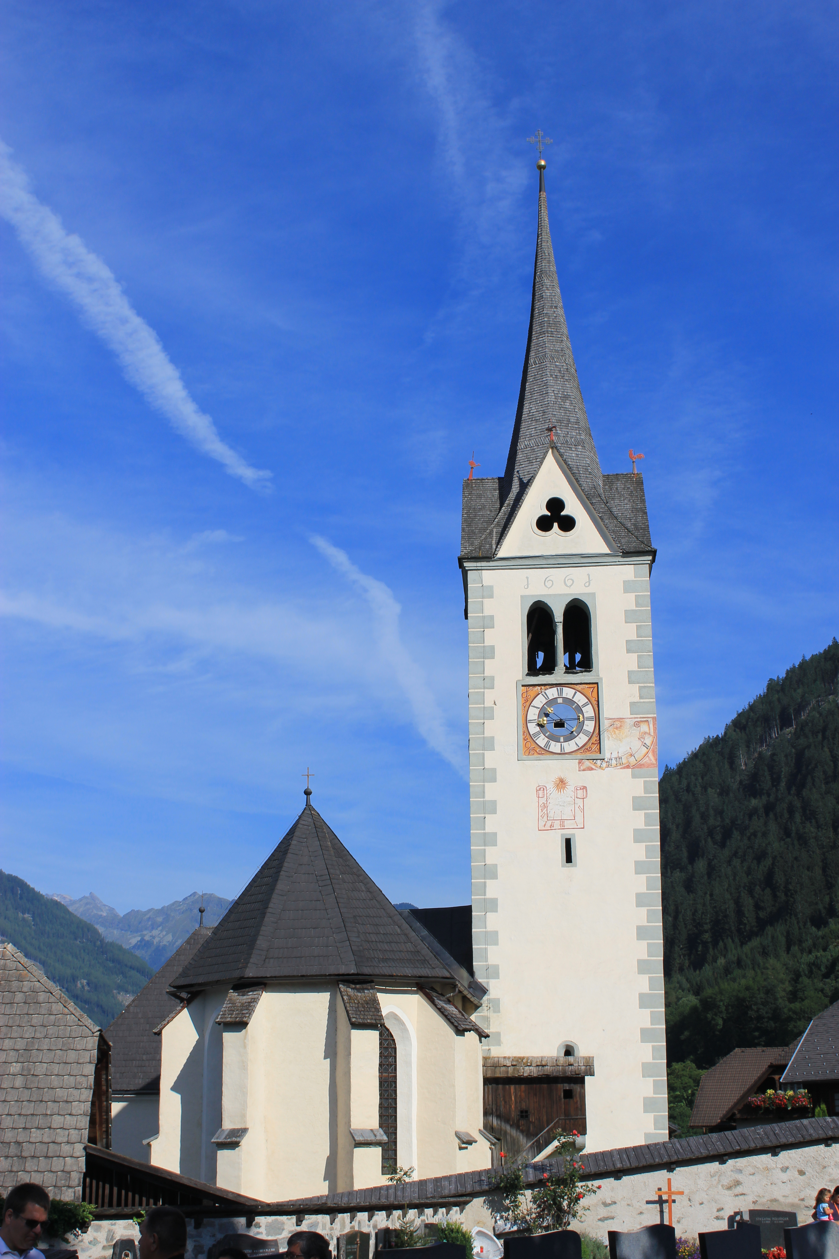 Parish church Malta in the community Malta